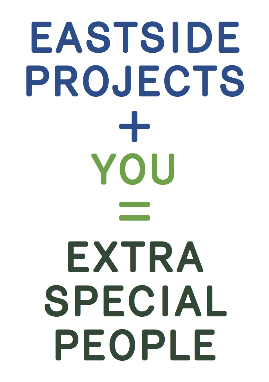 Extra Special People - Flyer, used to promote membership of this associate scheme based at Eastside Projects.